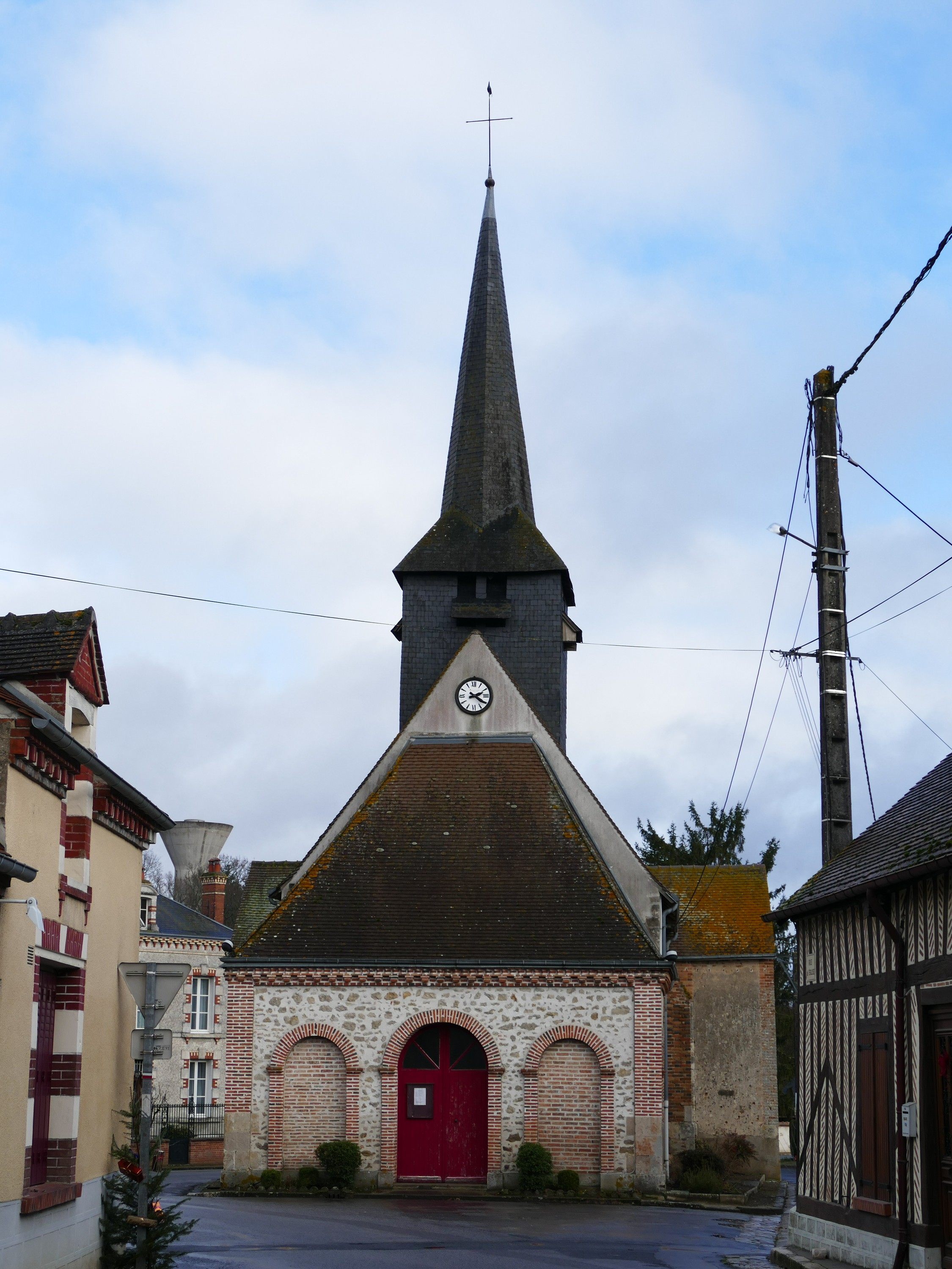 Saint-Martin's church in Vannes-sur-Cosson (Loiret, Centre-Val de Loire, France).